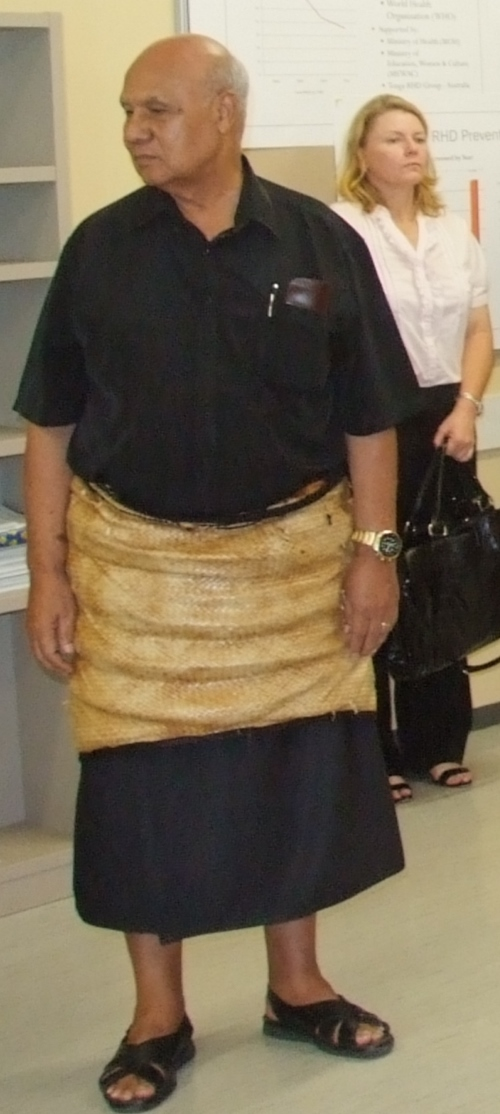 Lord Tu'ivakano (Prime Minister of Tonga), Hon. Richard Marles MP (Parliamentary Secretary for Pacific Islands Affairs). Visit to Vaiola Hospital, Tonga 17-18 May 2011. Photo cropped to show a Tongan man with the ta'ovala skirt.